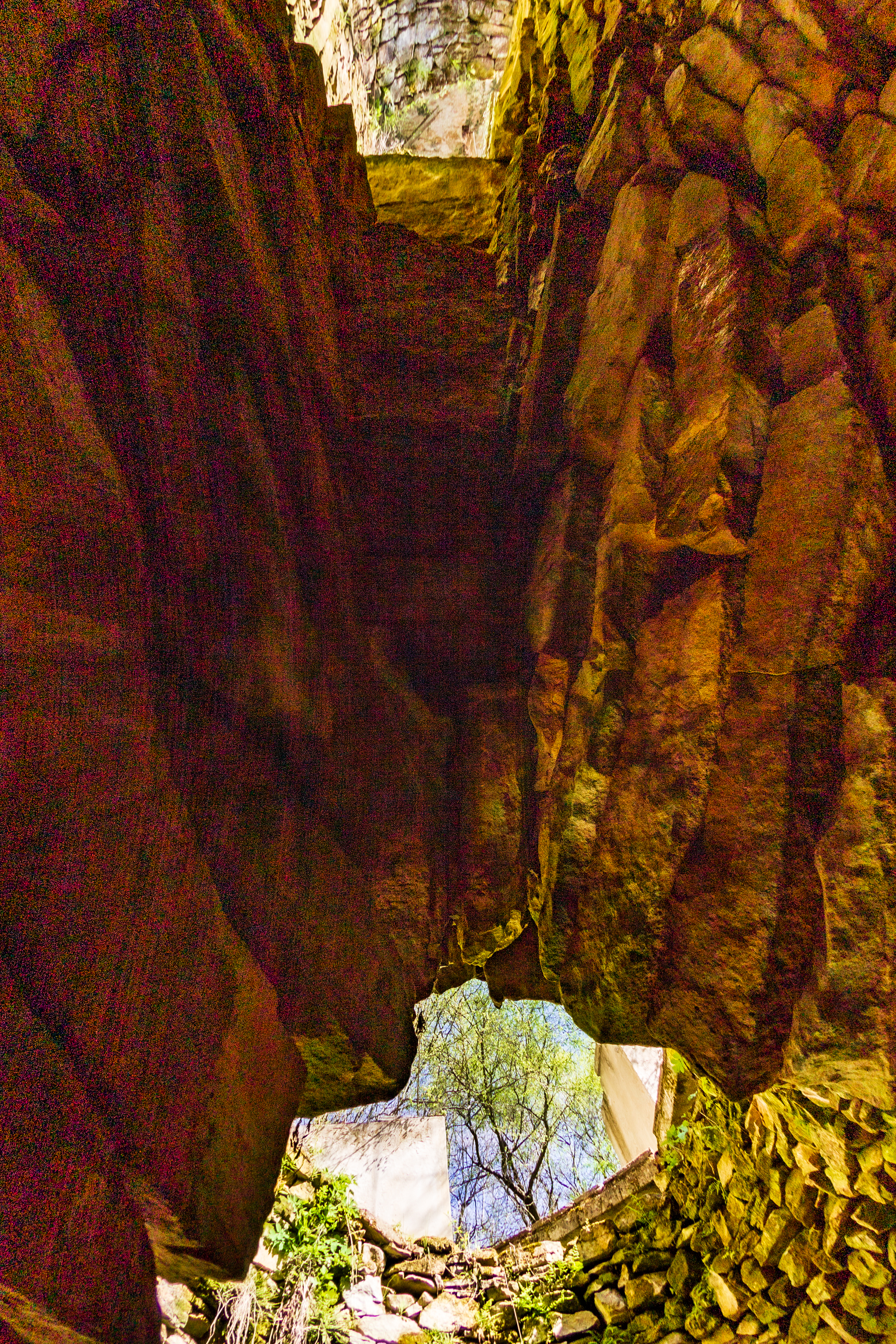 Dromos_props_Garlo_pozo_sacro_interior